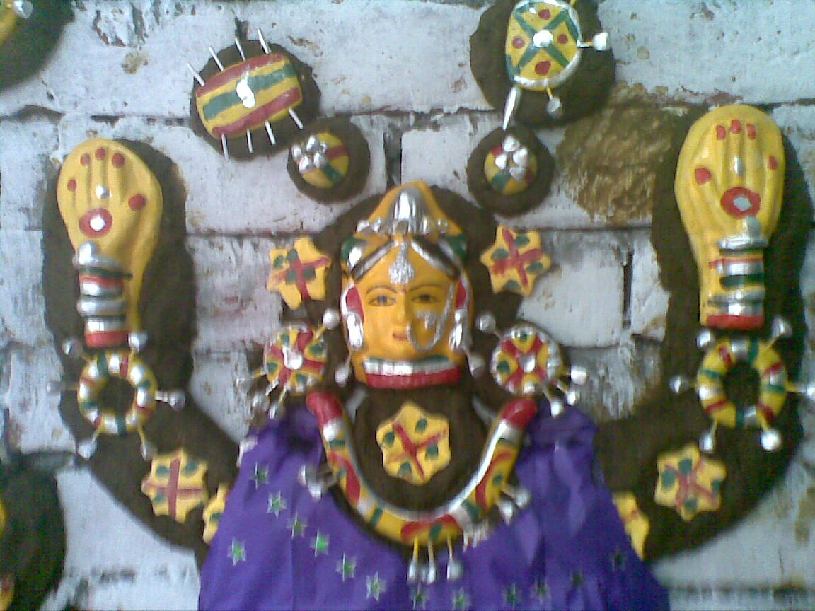 very famous Indian goddess